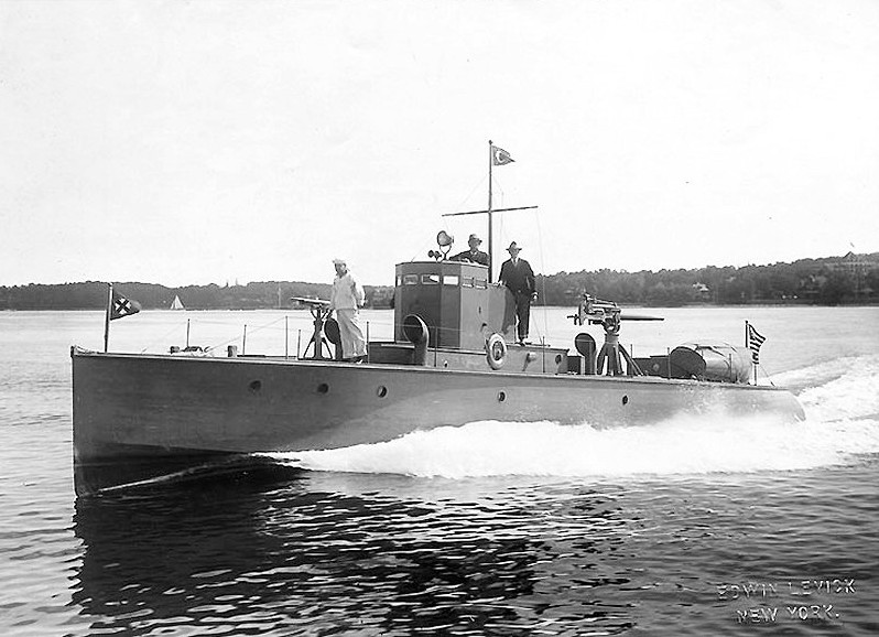 Photo #: NH 101040 Chingachgook (American Motor Boat, 1916) Underway at high speed, October 1916. Photographed by Edwin Levick, of New York City. Though flying yachting flags, she is armed with a Colt machine gun forward and a small cannon aft, probably for service with the pre-World War I Coast Defense Reserve. This civilian craft was acquired by the Navy on 25 May 1917 and placed in commission on 6 June 1917 as USS Chingachgook (SP-35). Essentially destroyed by a gasoline explosion on 31 July 1917, she was decommissioned on 10 January 1918 and disposed of by burning on 19 February 1918. U.S. Naval Historical Center Photograph.